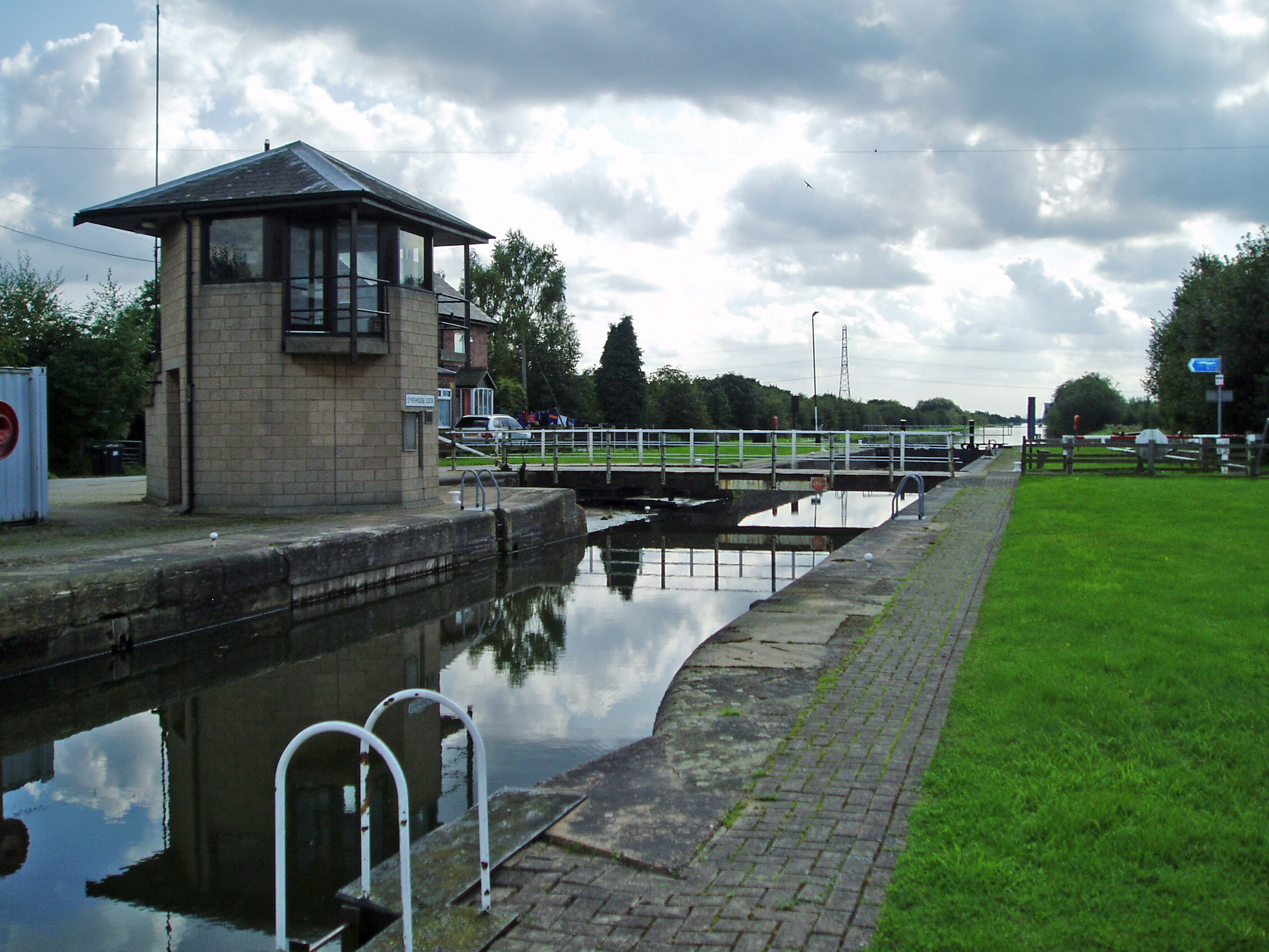 Sykehouse Lock on the New Junction canal, with the swing bridge across its centre